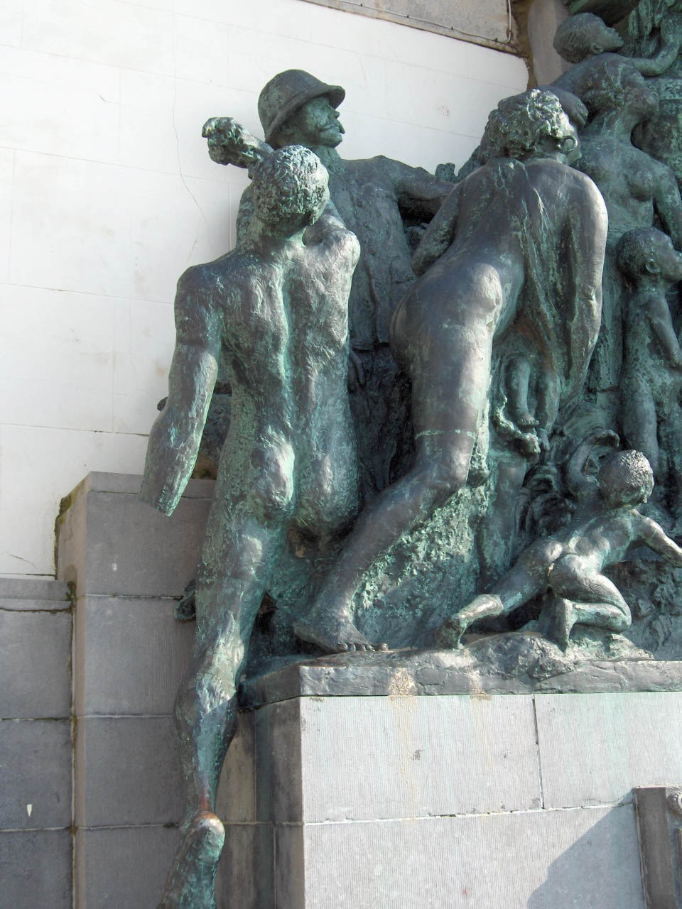 Statue of King Leopold II - detail: sawn off hand on the left figure, in protest of atrocities, Oostende - Belgium